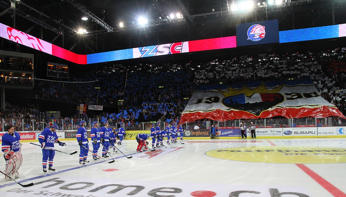 ZSC Lions. 80th anniversary lineup